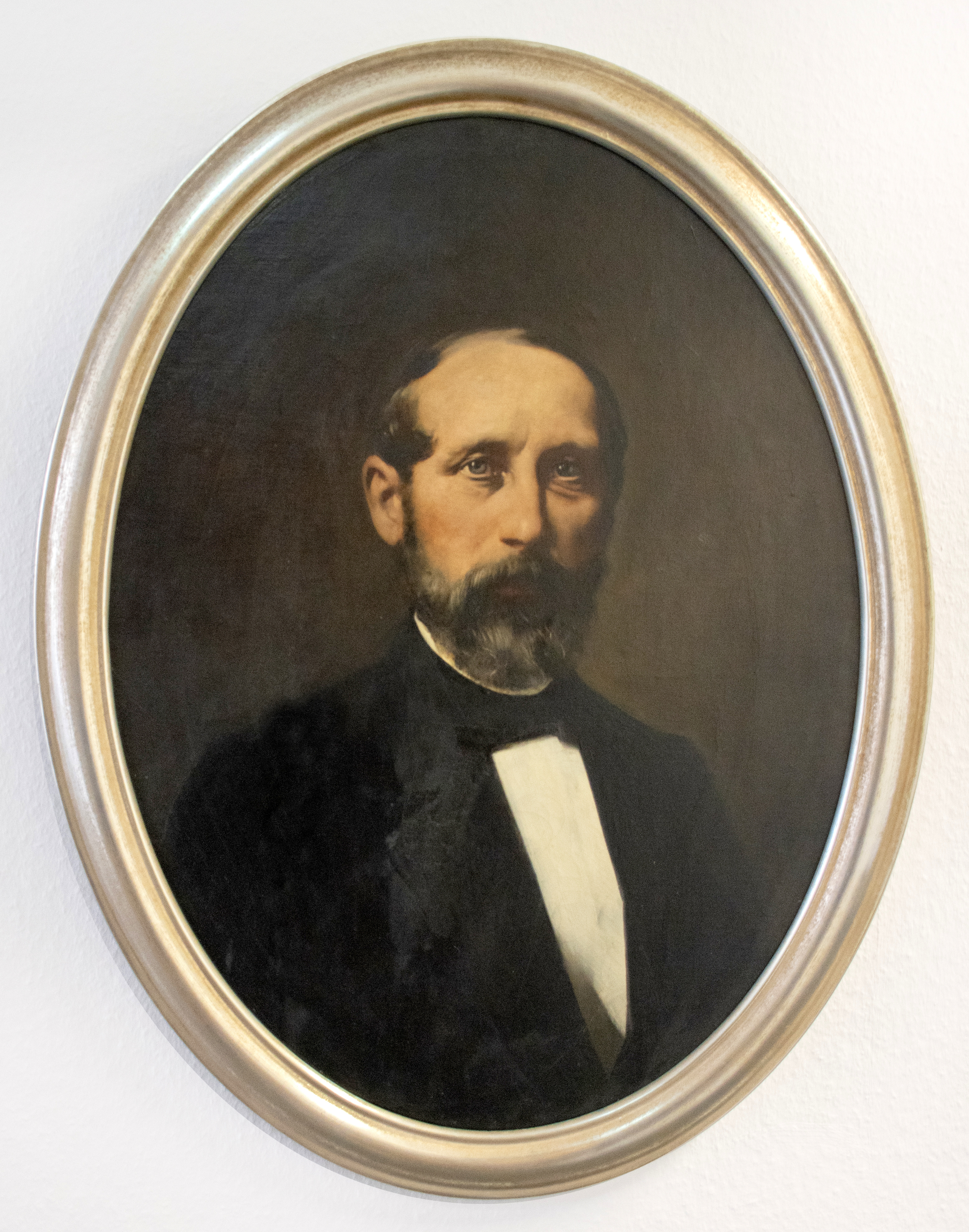 Frederick Vezin (1859-1933): Portrait of the german manufacturer Carl Julius_Erbslöh, undated, 80x60 cm, _signed on the reverse